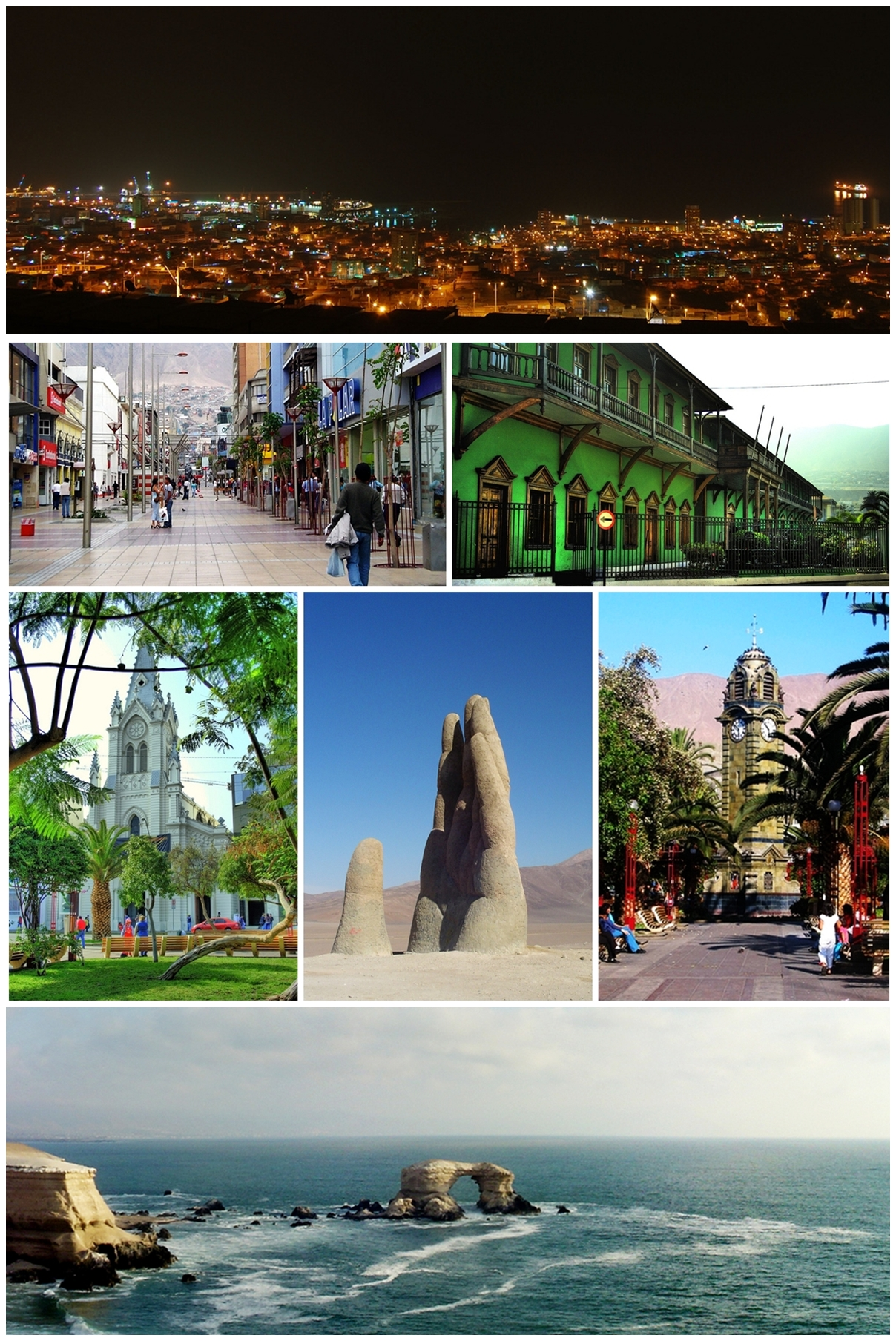 Montage of Antofagasta city images.